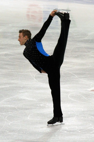 Shawn Sawyer performs a spin during the 2006 Skate Canada International.